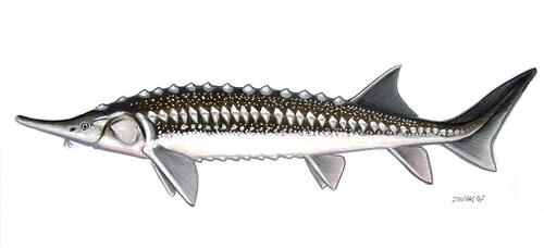 Starry Sturgeon, Acipenser stellatus